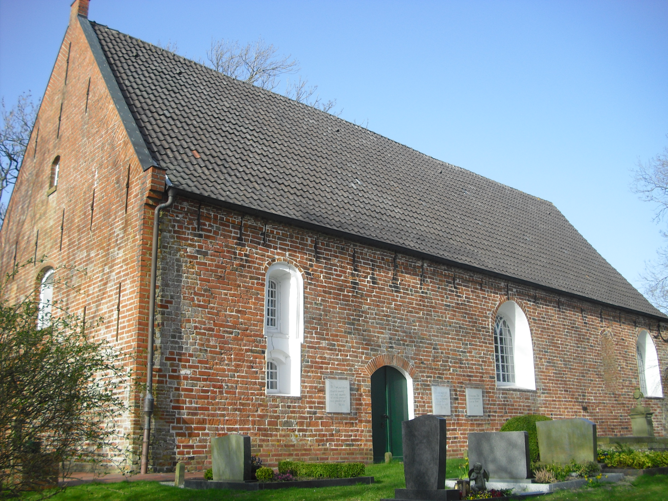 Lutheran Church Wueppels (Wangerland, District of Friesland, Lower Saxony, Germany